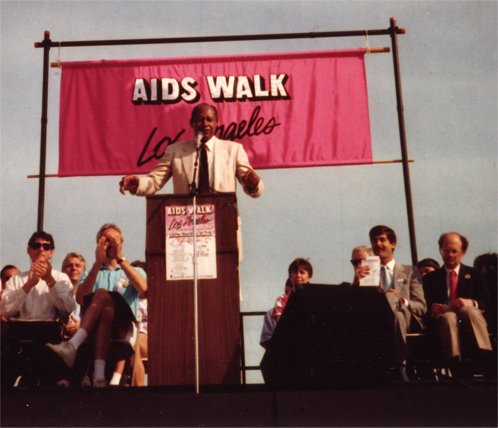 Tom Bradley speaking at AIDS Walk LA at the Paramount Studios lot